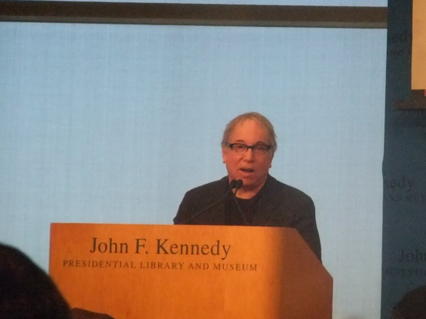 Paul Simon paying tribute to music legends Chuck Berry and Leonard Cohen who were the recipients of the first annual Pen Awards for songwriting excellence-at the JFK Presidential Library, Boston, Mass. on Feb. 26, 2012.